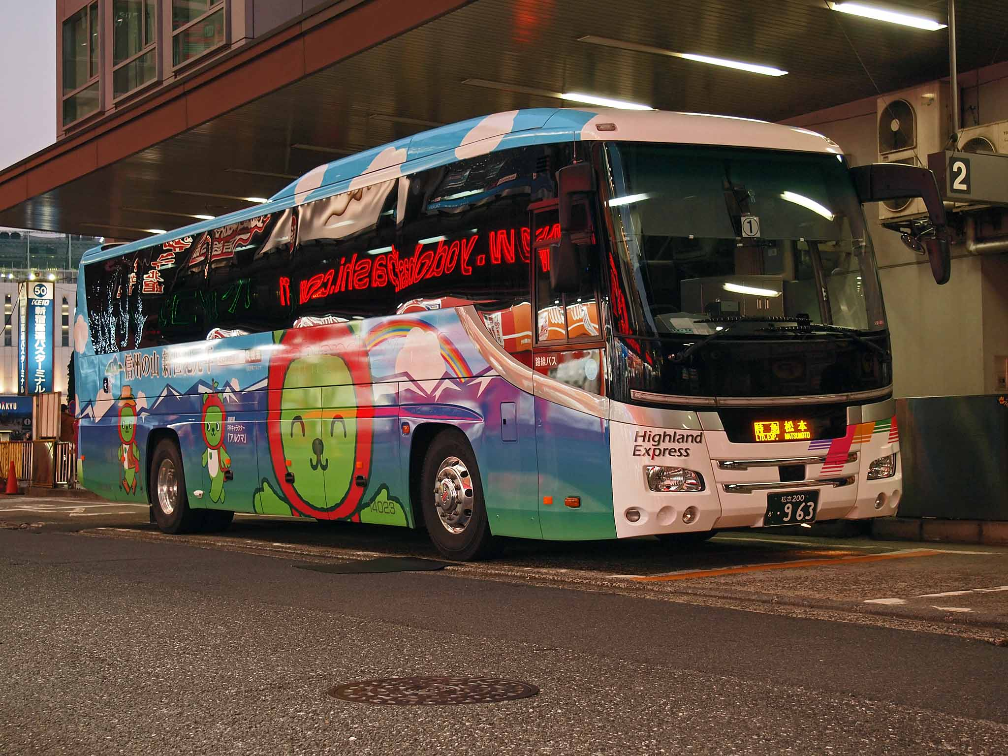 Fleet of ALPICO Kotsu, designed "ARUKUMA", for Chuo Highway Bus Shinjuku and Matsumoto route. Model: Hino Selega HD RU1ESBA License plate: NNM200KA-963 Place: Keio Shinjuku Highway Bus Terminal, Shinjuku Ward, Tokyo Japan